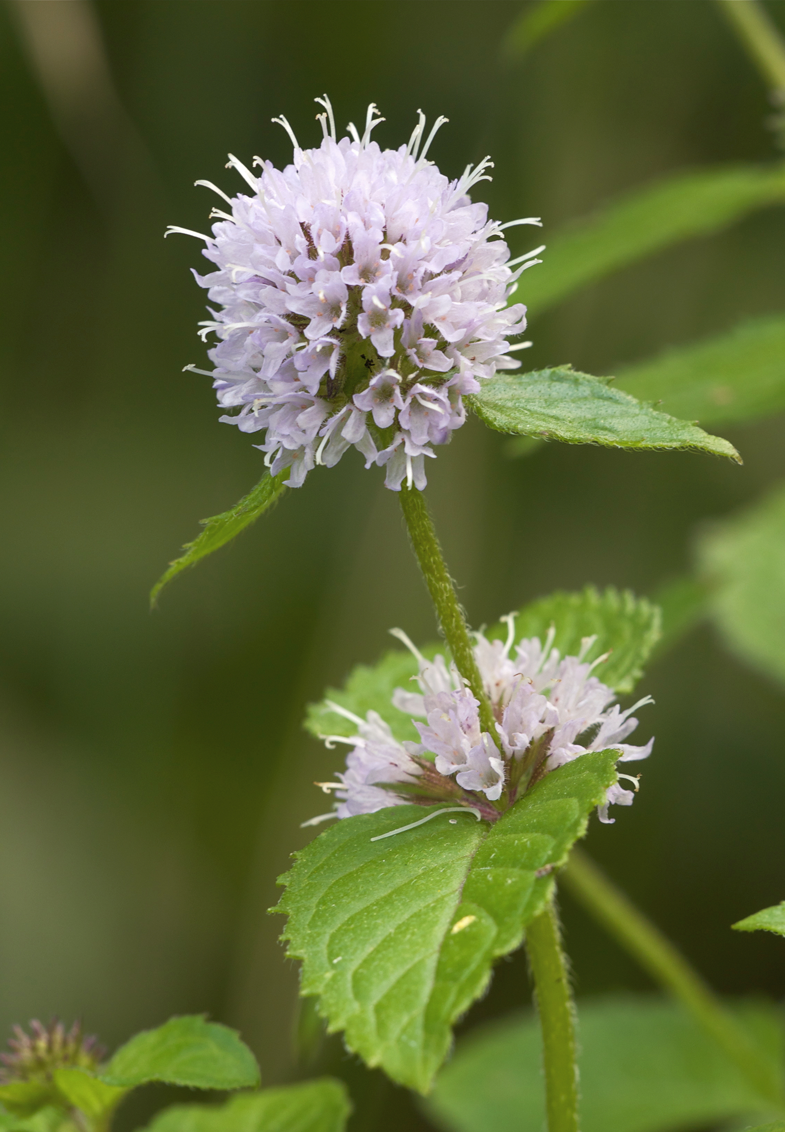 Water Mint (Mentha aquatica), Chemnitz, Germany